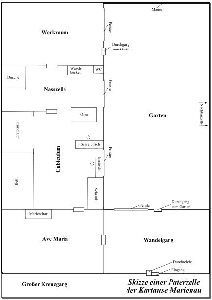 cell of a Carthusian cloister monk in the German Charterhouse of Marienau